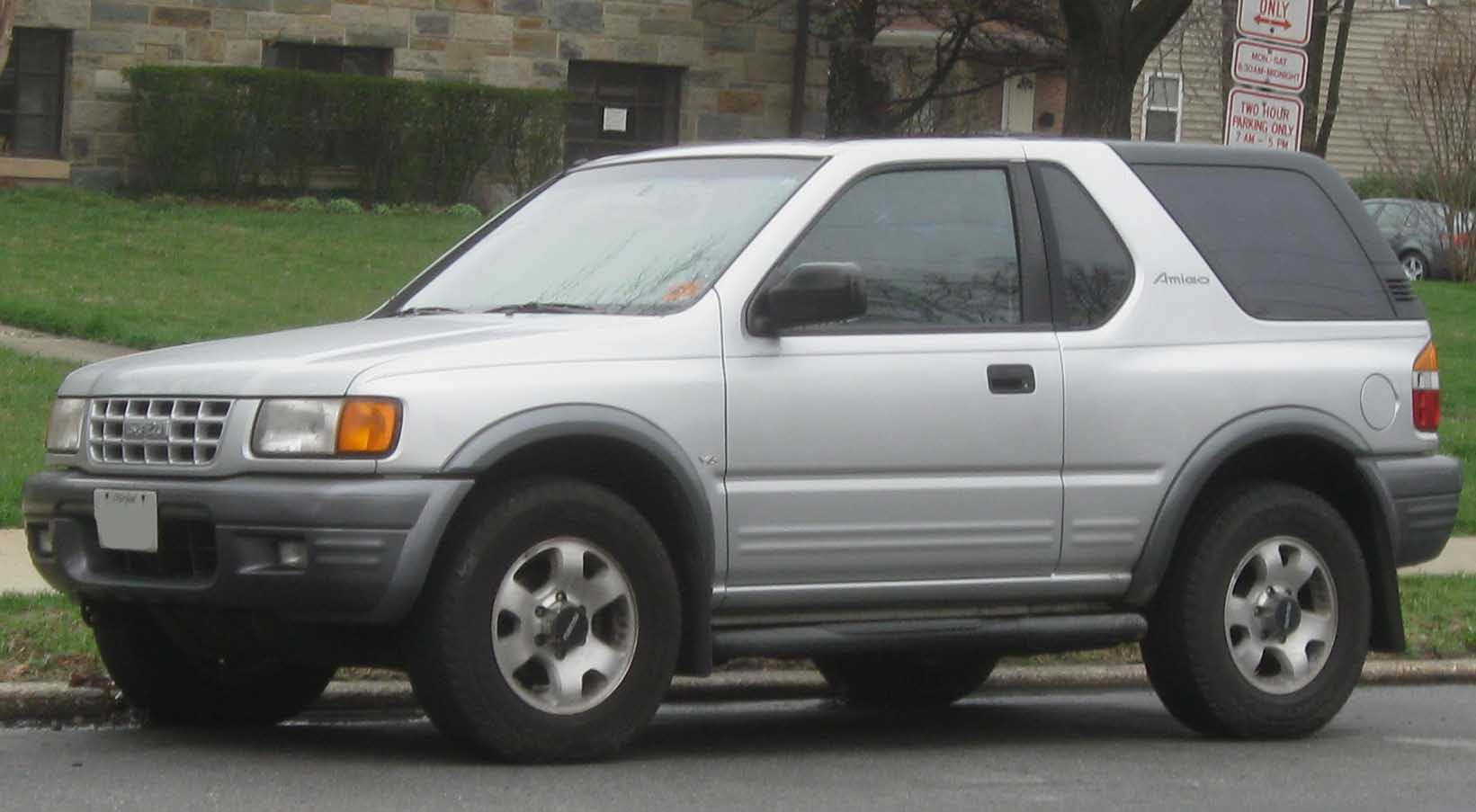 1998-2001 Isuzu Amigo photographed in College Park, Maryland, USA.